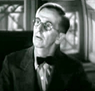 Cropped movie screenshot of Conlin in Second Chorus